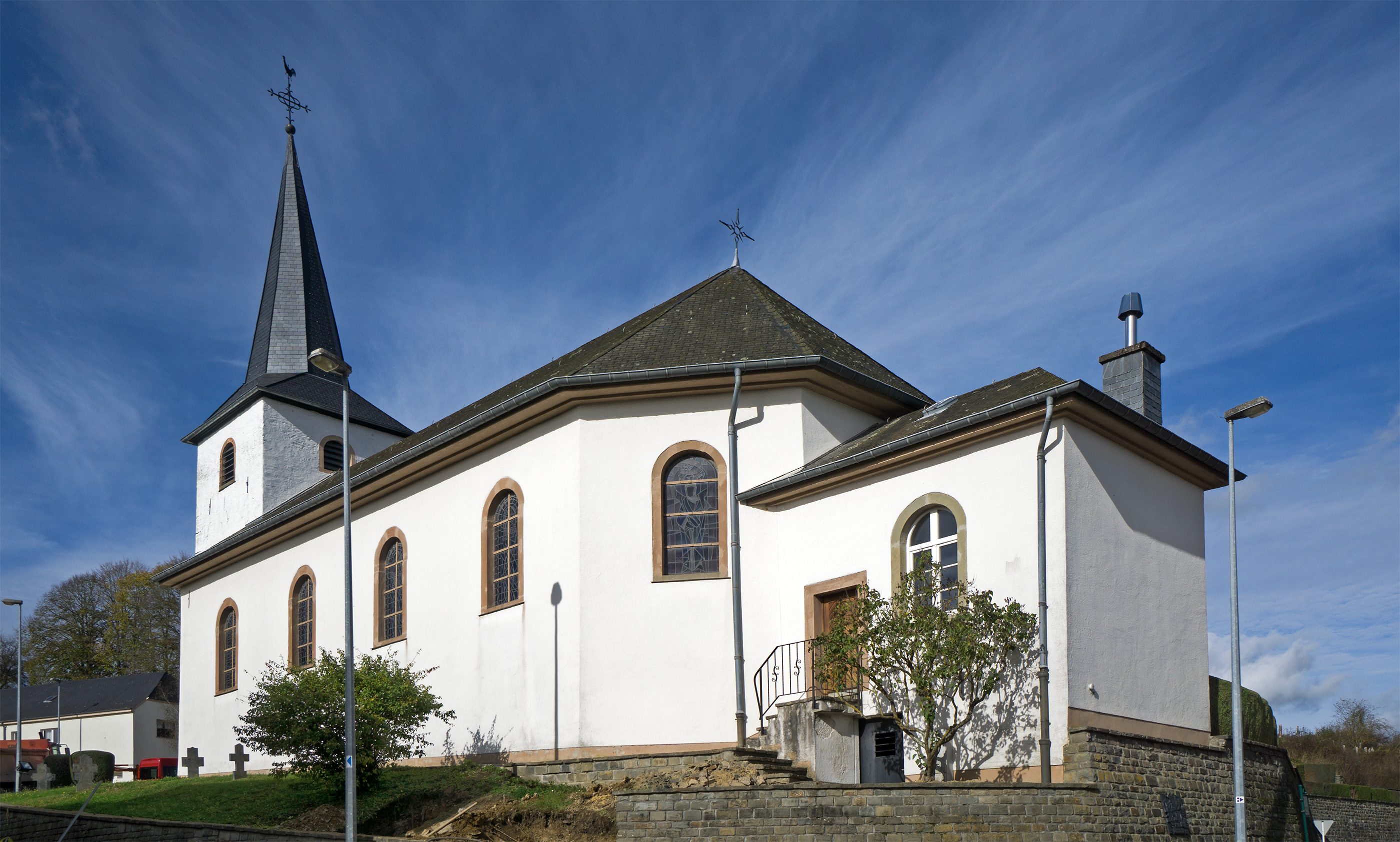 Church of Surré